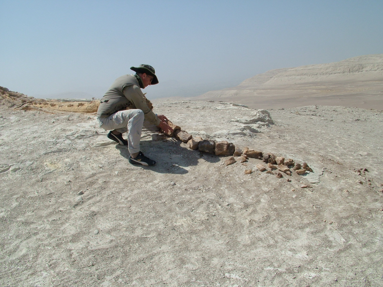 Foto pública